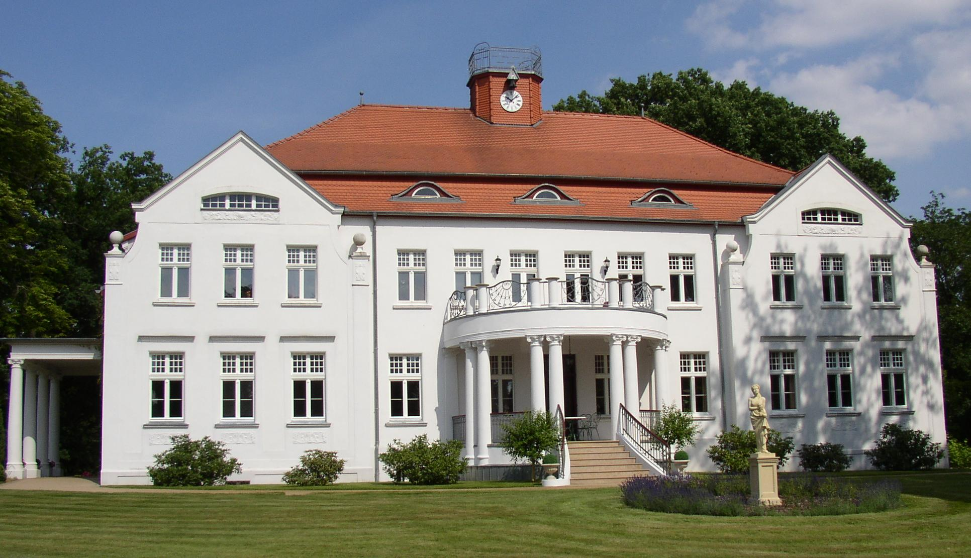 Manor house in Heiligengrabe-Maulbeerwalde in Brandenburg, Germany